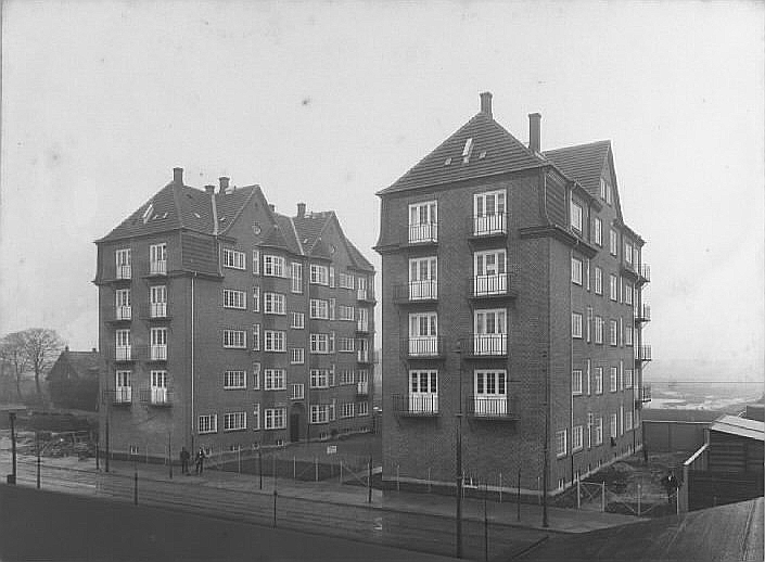 Working-class housing at Mariendalsvej 62-64, Frederiksberg, by architect Ulrik Plesner.